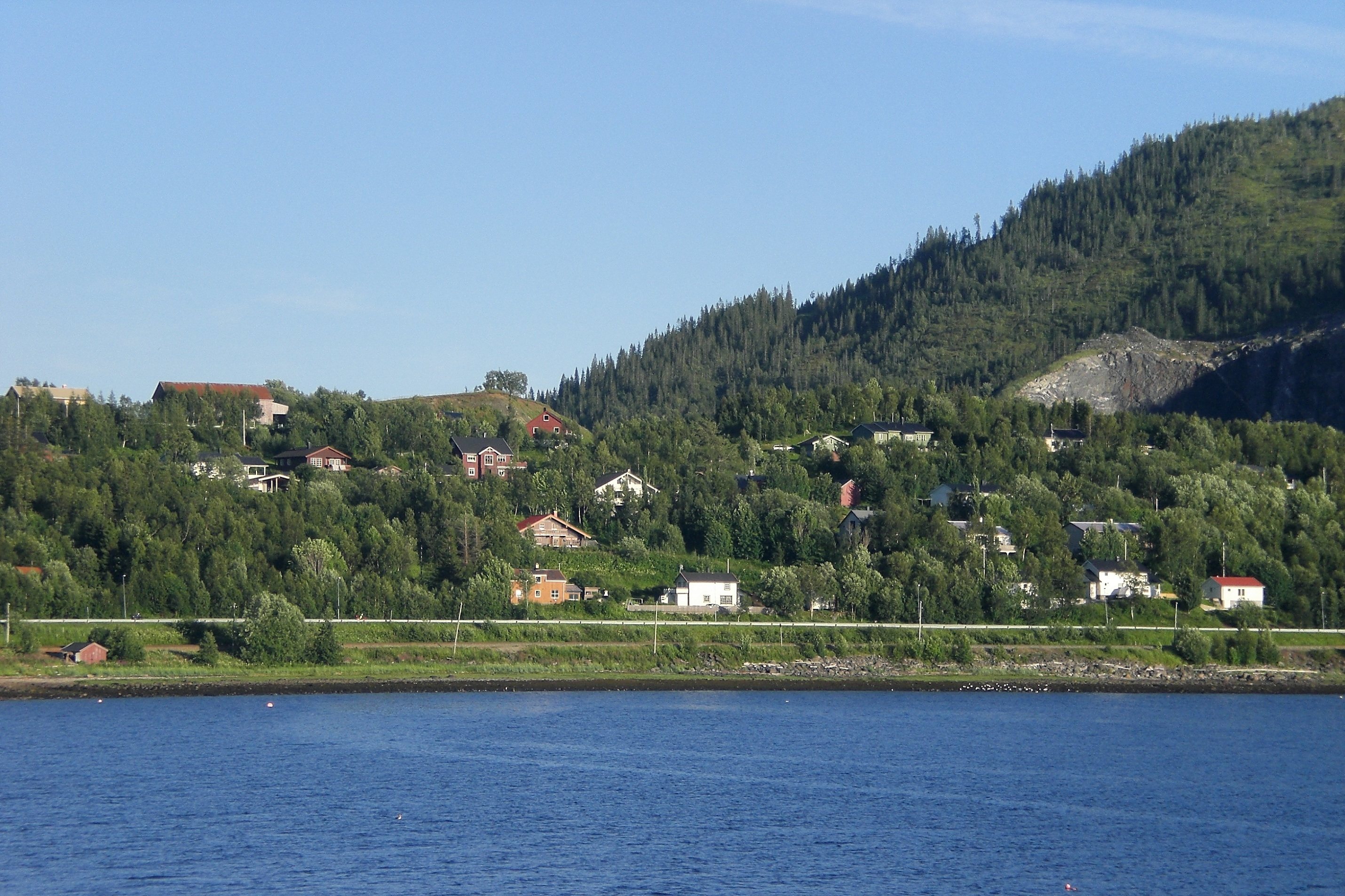 A part of Skaland in Vefsn.